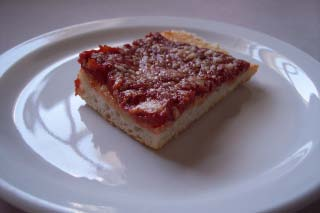 A piece of tomato pie from Utica, New York, United States.